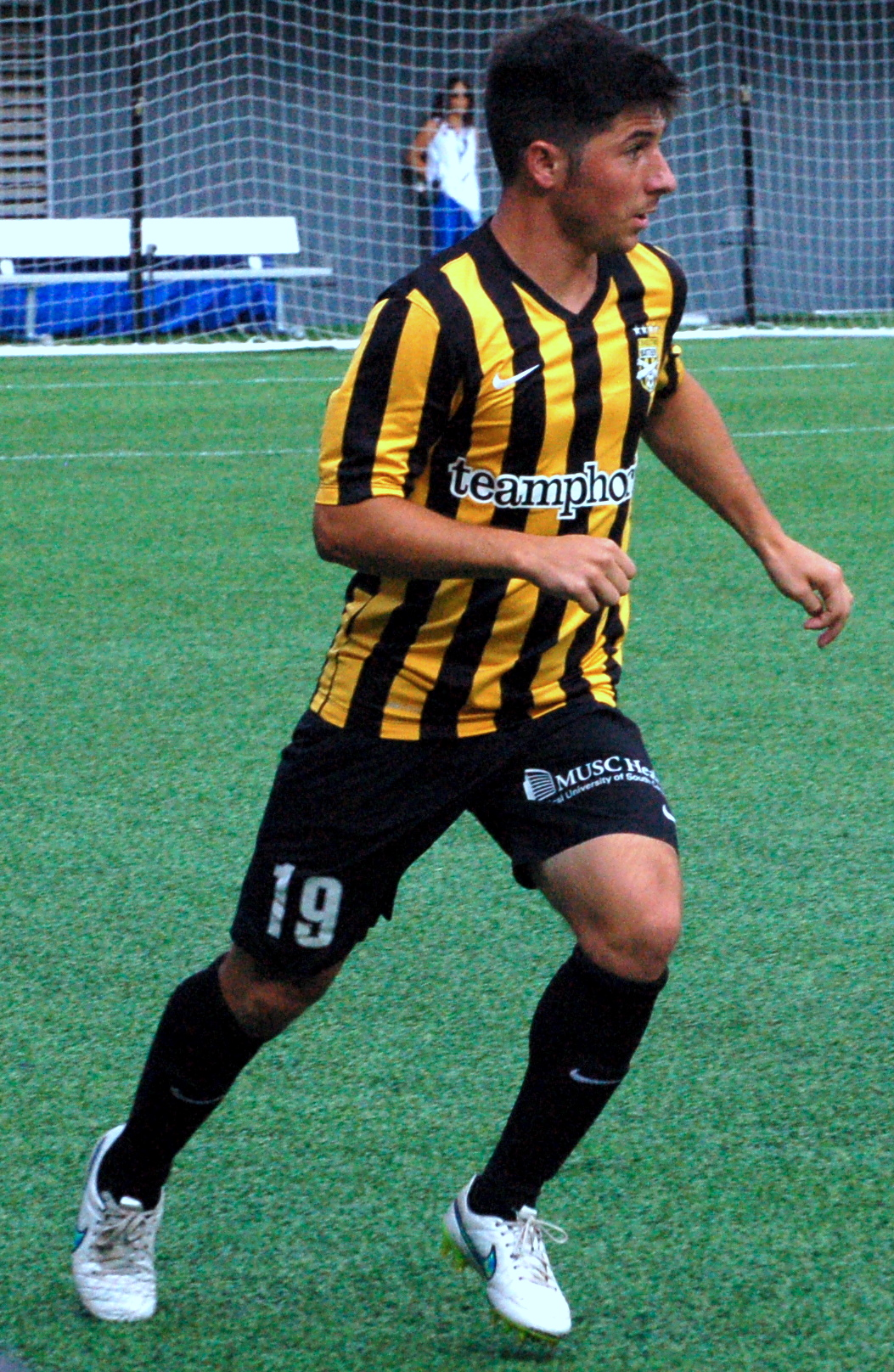 Dante Marini Taken during a 2016 USL Playoffs Eastern Conference Quarterfinals match between FC Cincinnati and Charleston Battery at Nippert Stadium in Cincinnati on October 2, 2016.